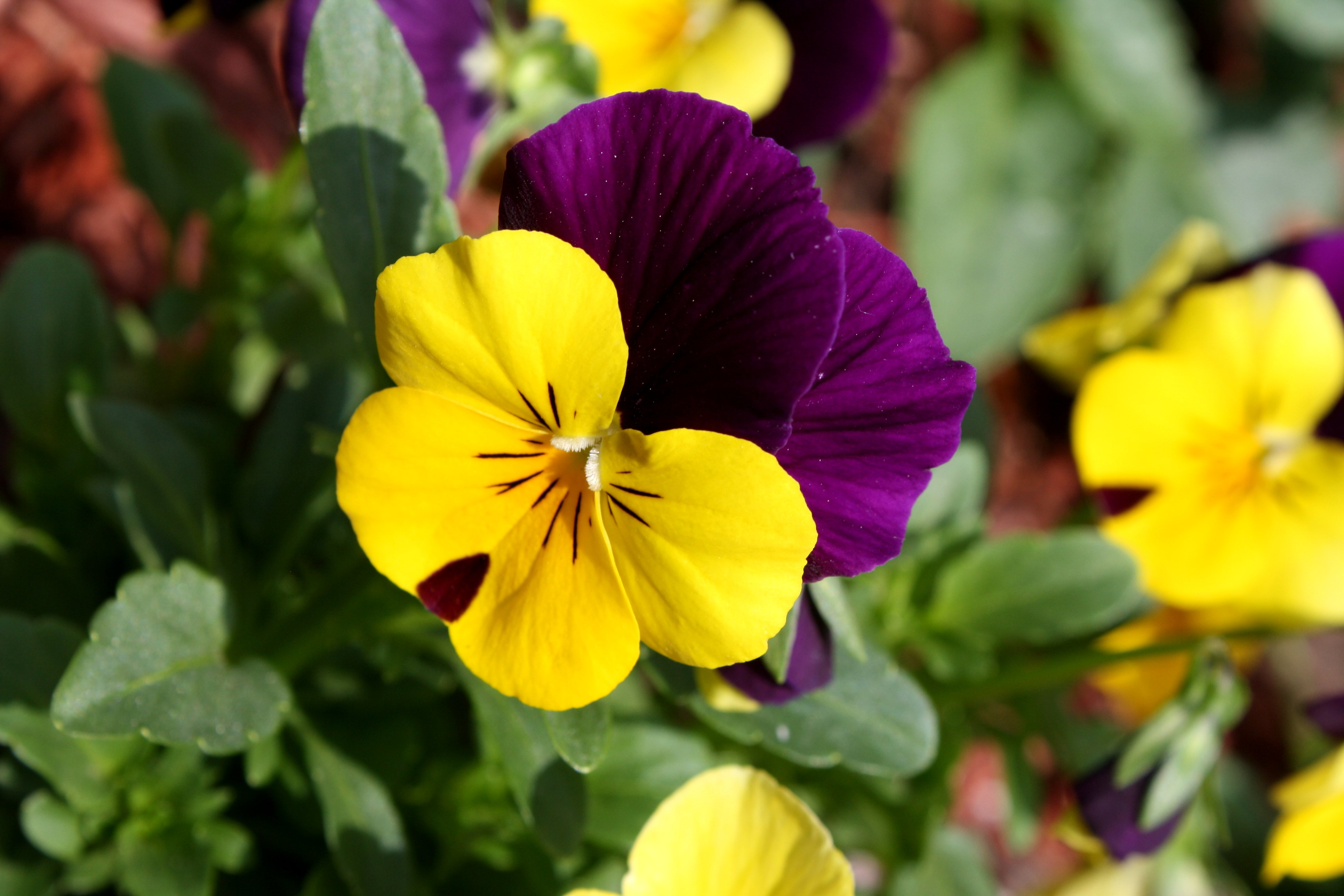 The pansy is a group of large-flowered hybrid plants cultivated as garden flowers. Pansies are derived from viola species Viola tricolor hybridized with other viola species, these hybrids are referred to as Viola × wittrockiana. The pansy flower is two to three inches in diameter and has two slightly overlapping upper petals, two side petals, and a single bottom petal with a slight beard emanating from the flower's center. The plant may grow to nine inches in height, and prefers sun to varying degrees and well-draining soils.